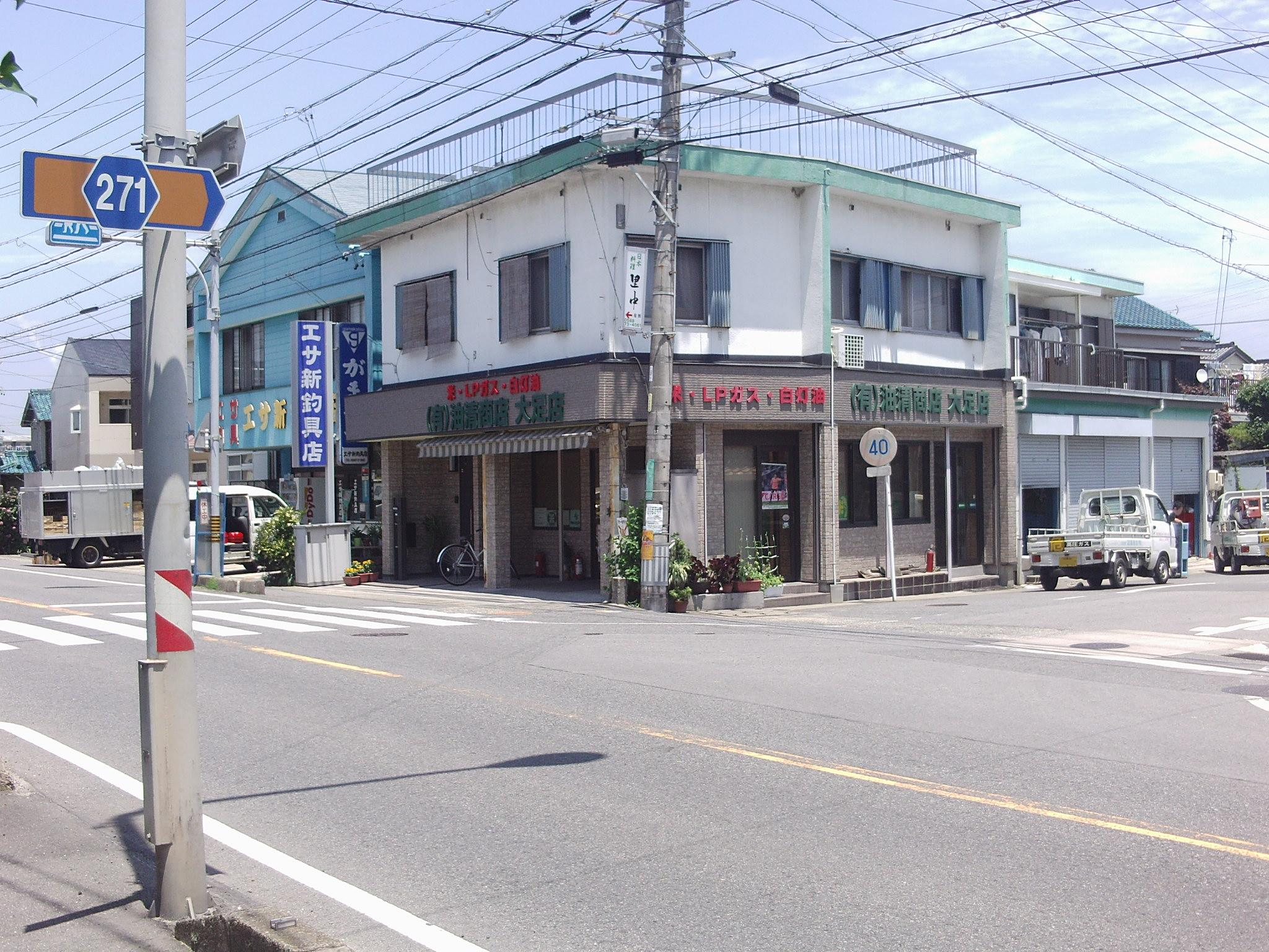 Aichi prefectural road No.271 in Dosenda, Taketoyo-cho, Chita-gun, Aichi.